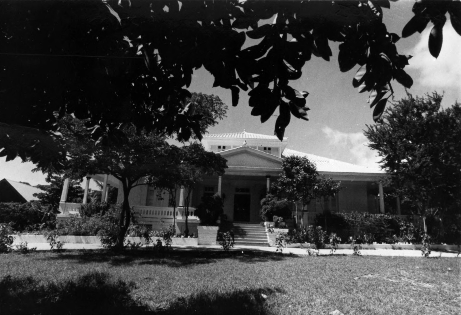 The historic Hacienda Casa del Frances (Frenchman's House Estate, built ca. 1910), formerly located near Esperanza, Vieques, Puerto Rico, is listed on the U.S. National Register of Historic Places. The house was destroyed by fire in 2005.